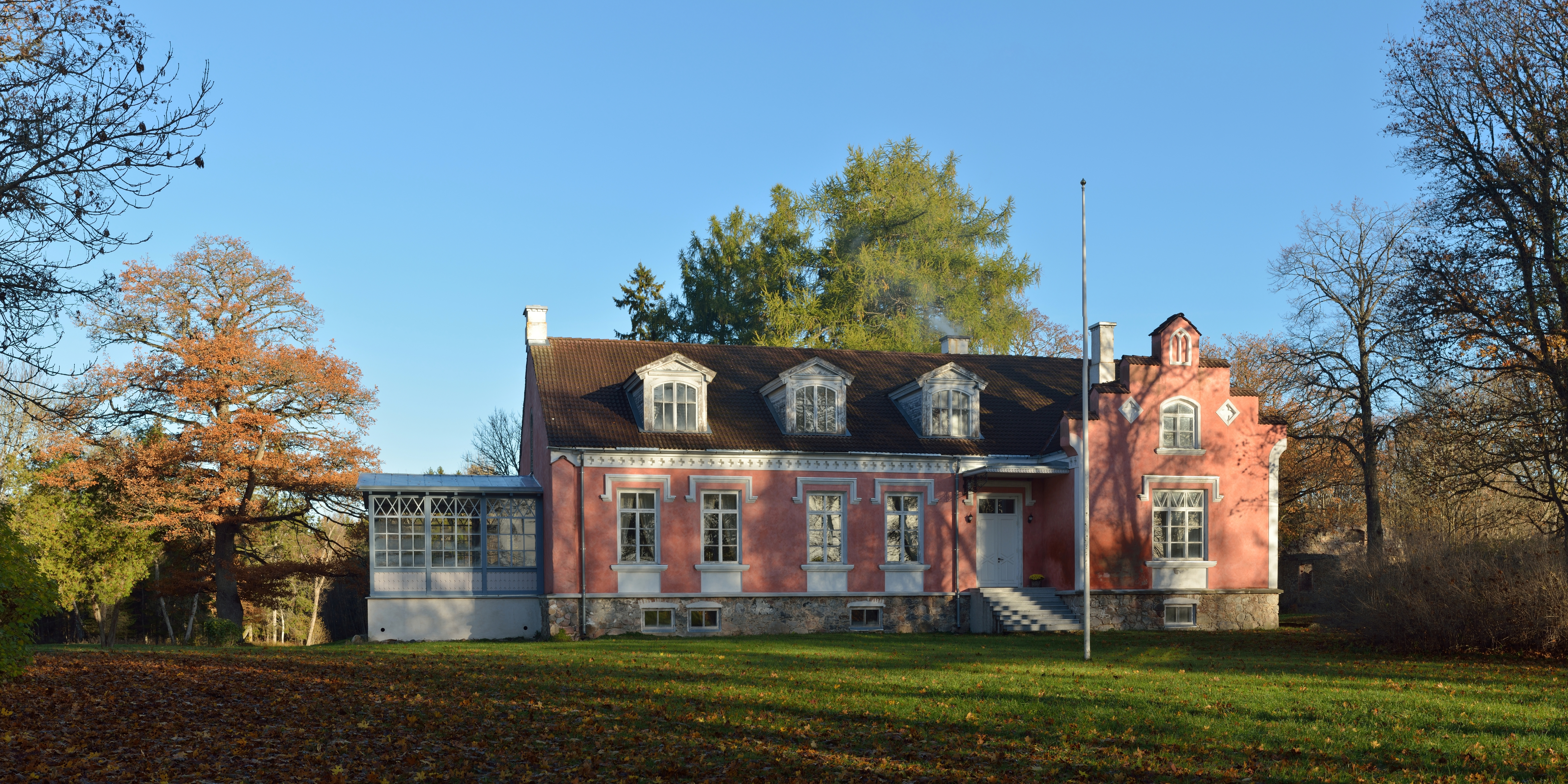 Kolu manor main building.